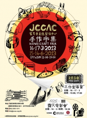 JCCAC Handicraft Fair